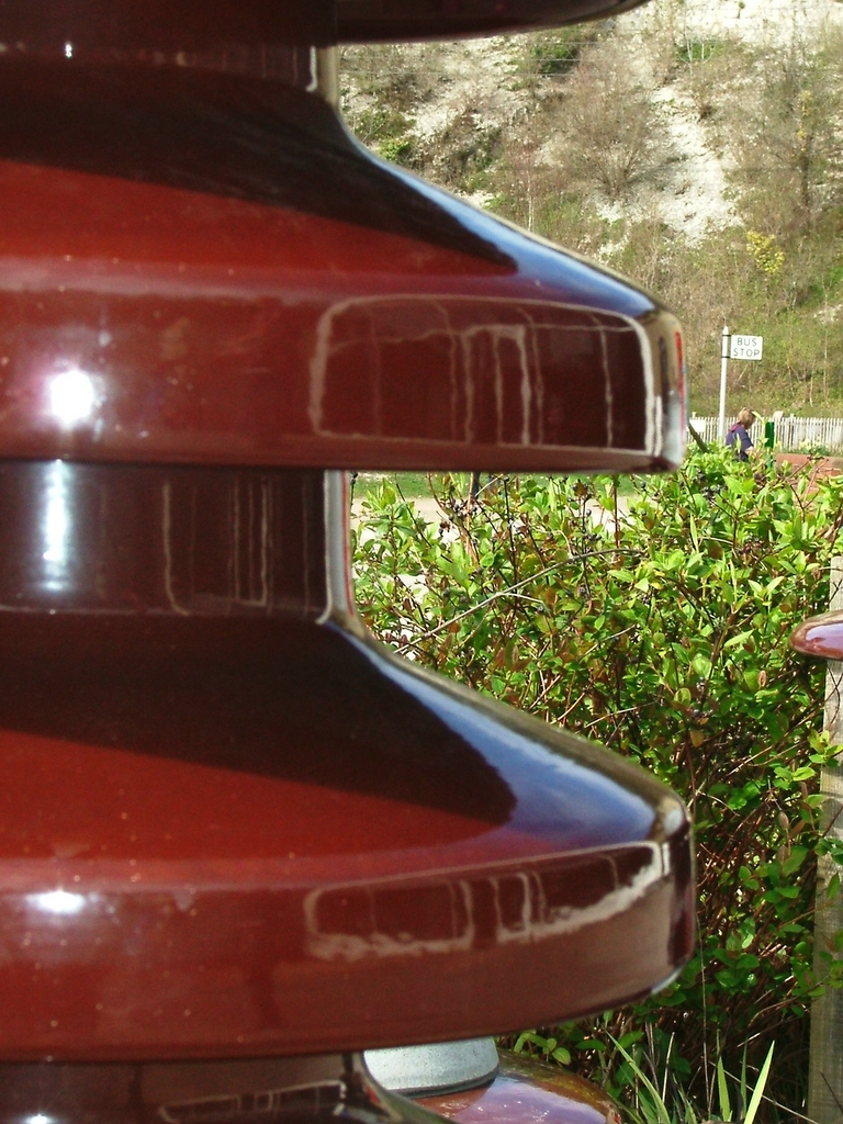 Close-up of a high voltage insulator. Taken at Amberley Working Museum, England.